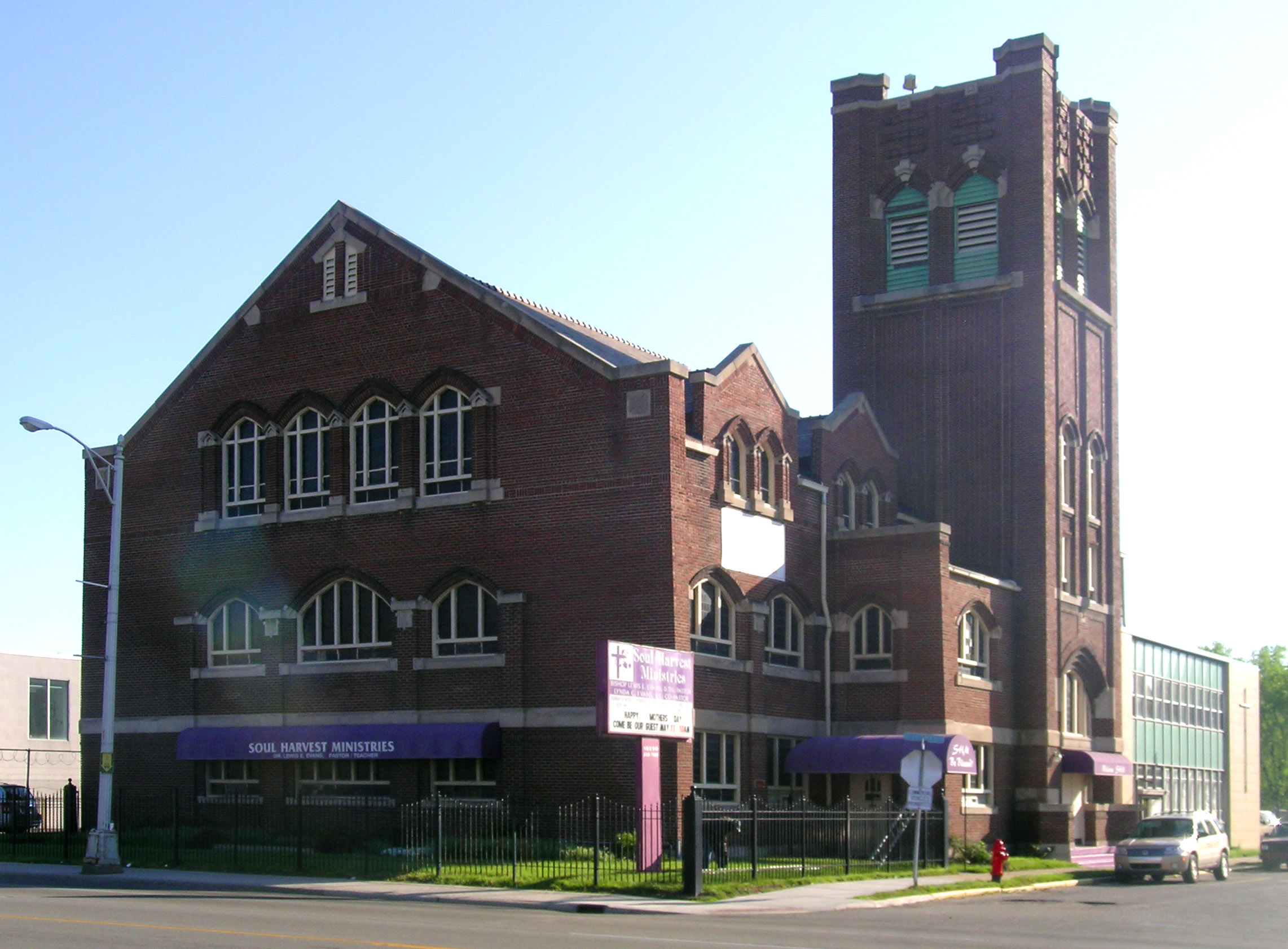 The historic First United Methodist Church in Highland Park, Michigan, United States is listed on the US National Register of Historic Places. The church building is currently occupied by Soul Harvest Ministries. In this photo, it is seen from across Woodward Avenue.